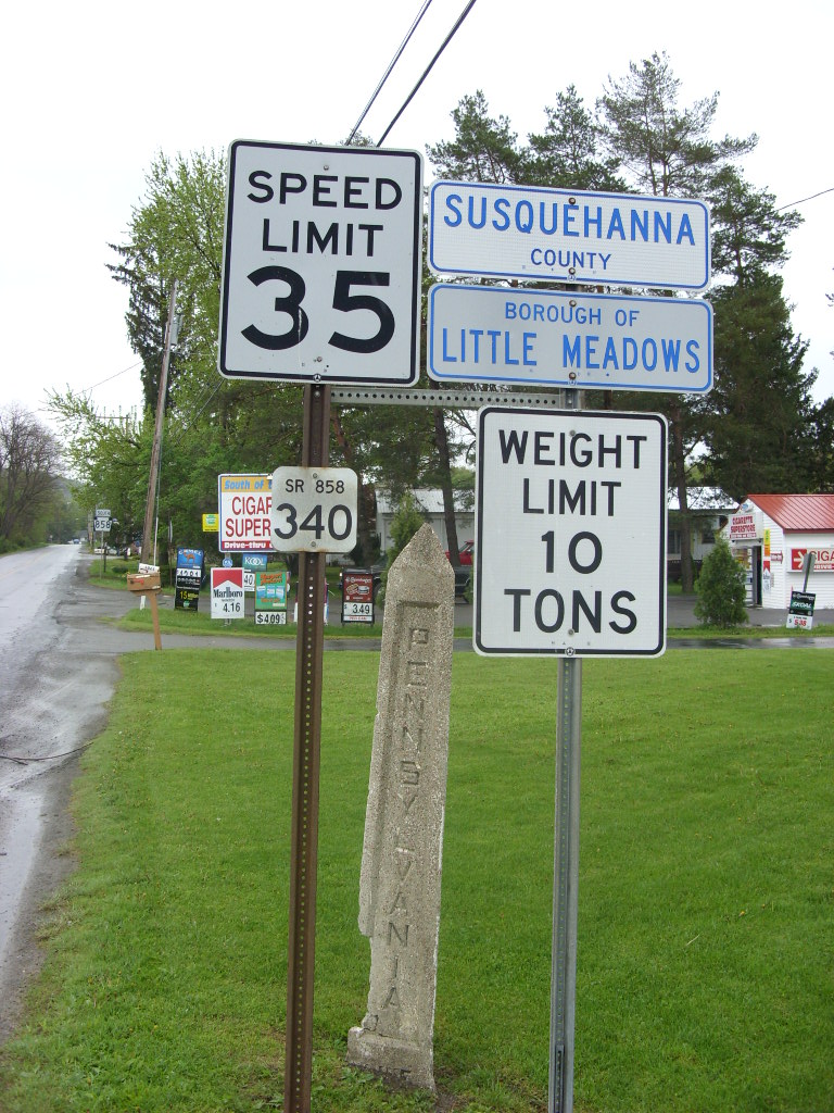 Pennsylvania State Route 858